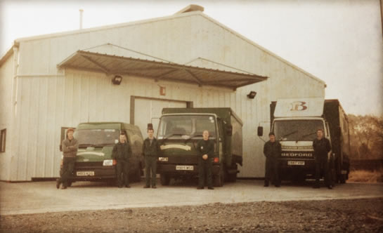 Original picture of the Broughton Ales Brewery. Draymen in front of the delivery vans.